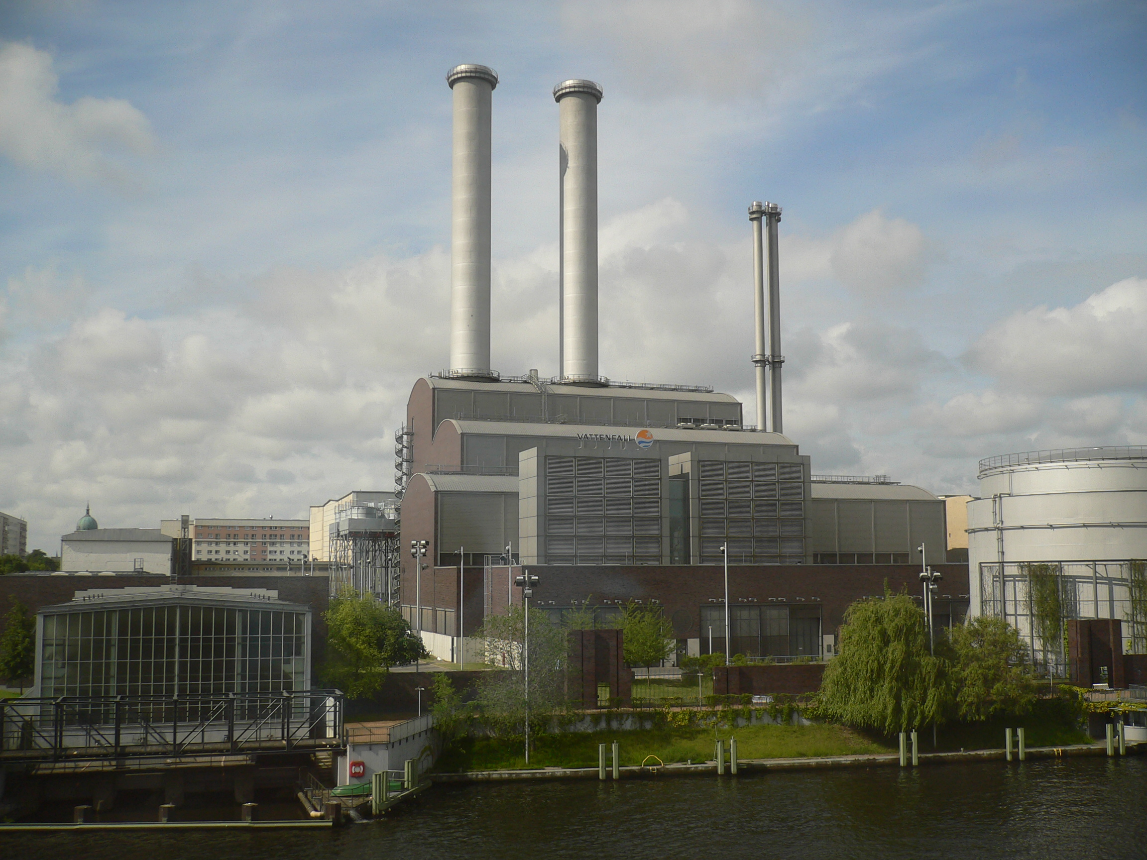 Heizkraftwerk Mitte (combined heat and power power plant), in front the river Spree, Berlin-Mitte, Germany